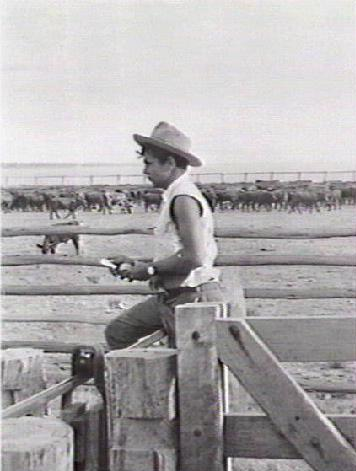 This is Leonard Edward Stacey (my brother). nickname "bomber" as he was born in Newcastle Waters on the day Darwin was bombed. This is taken at no. 7 bore while dipping cattle.